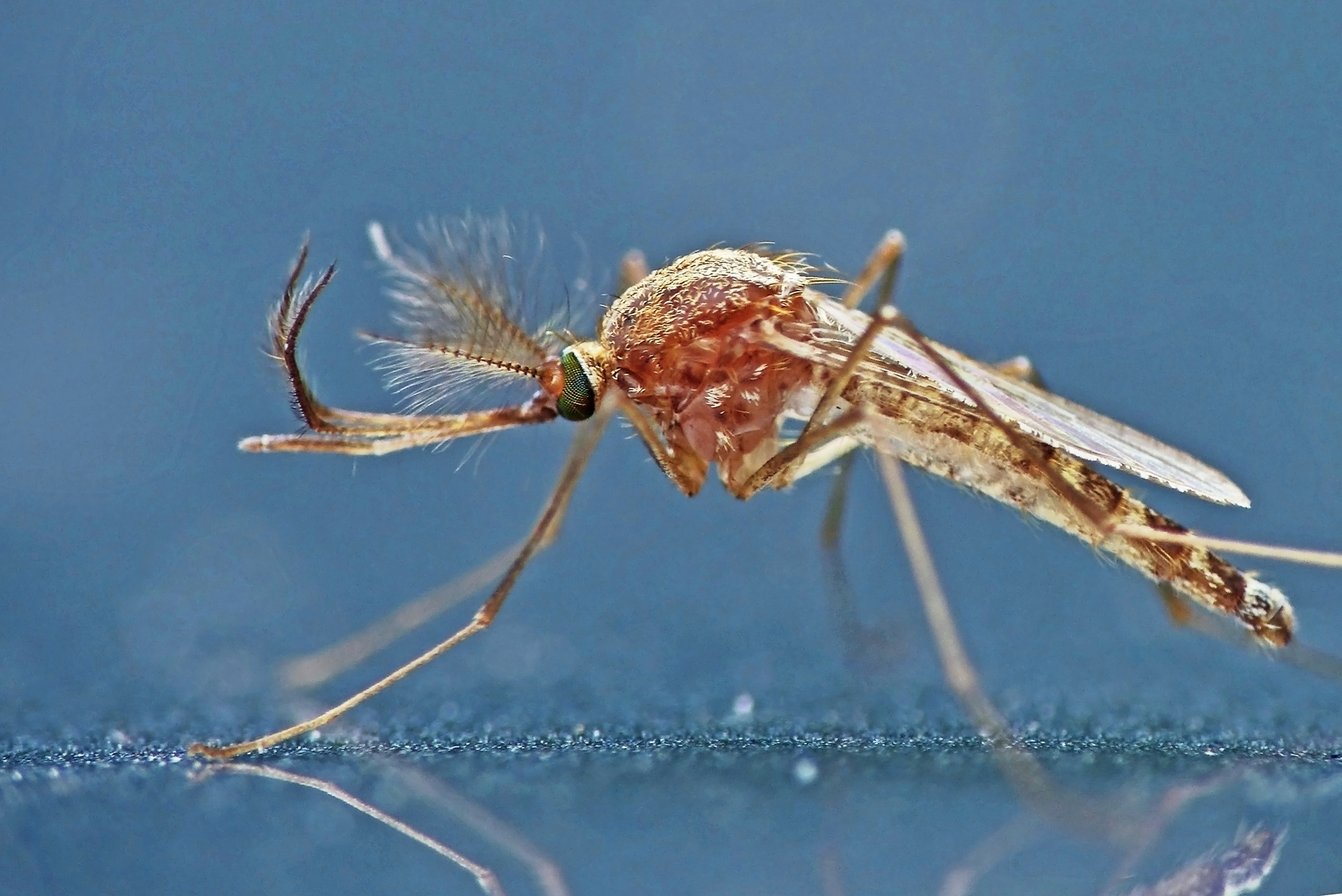 Stechmücke (m), Mosquito (m) Culex pipiens male, on the car